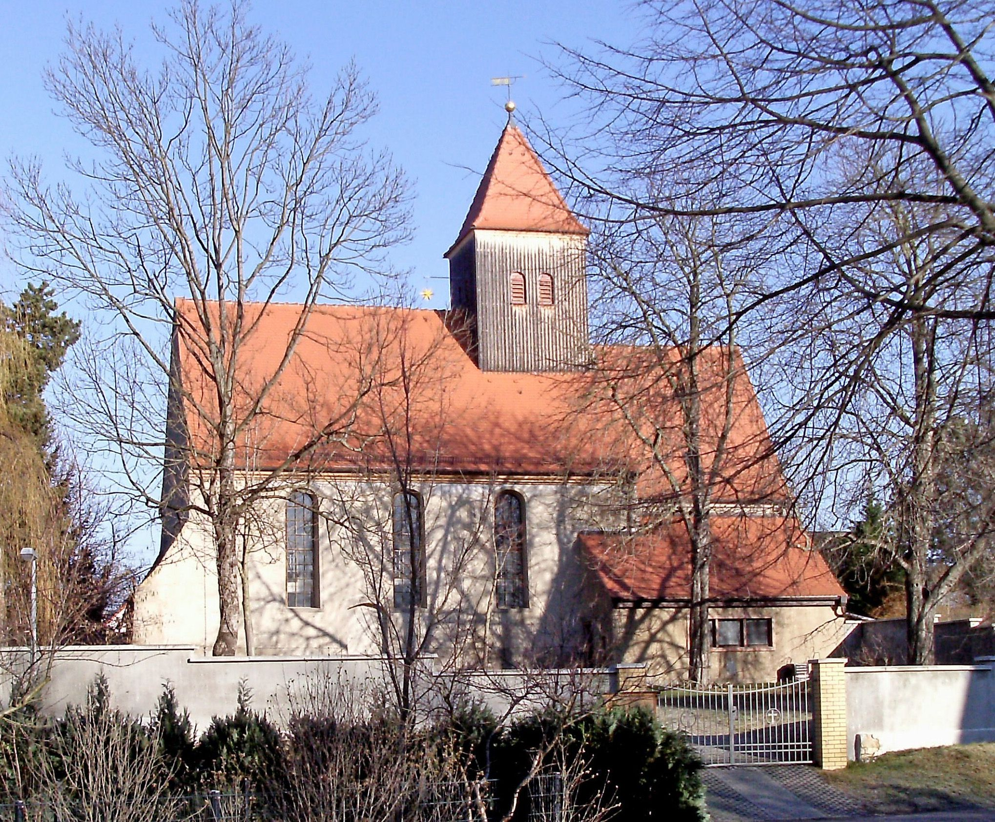 Church of the village of Zuckelhausen in the Holzhausen district of Leipzig (Saxony) from the south